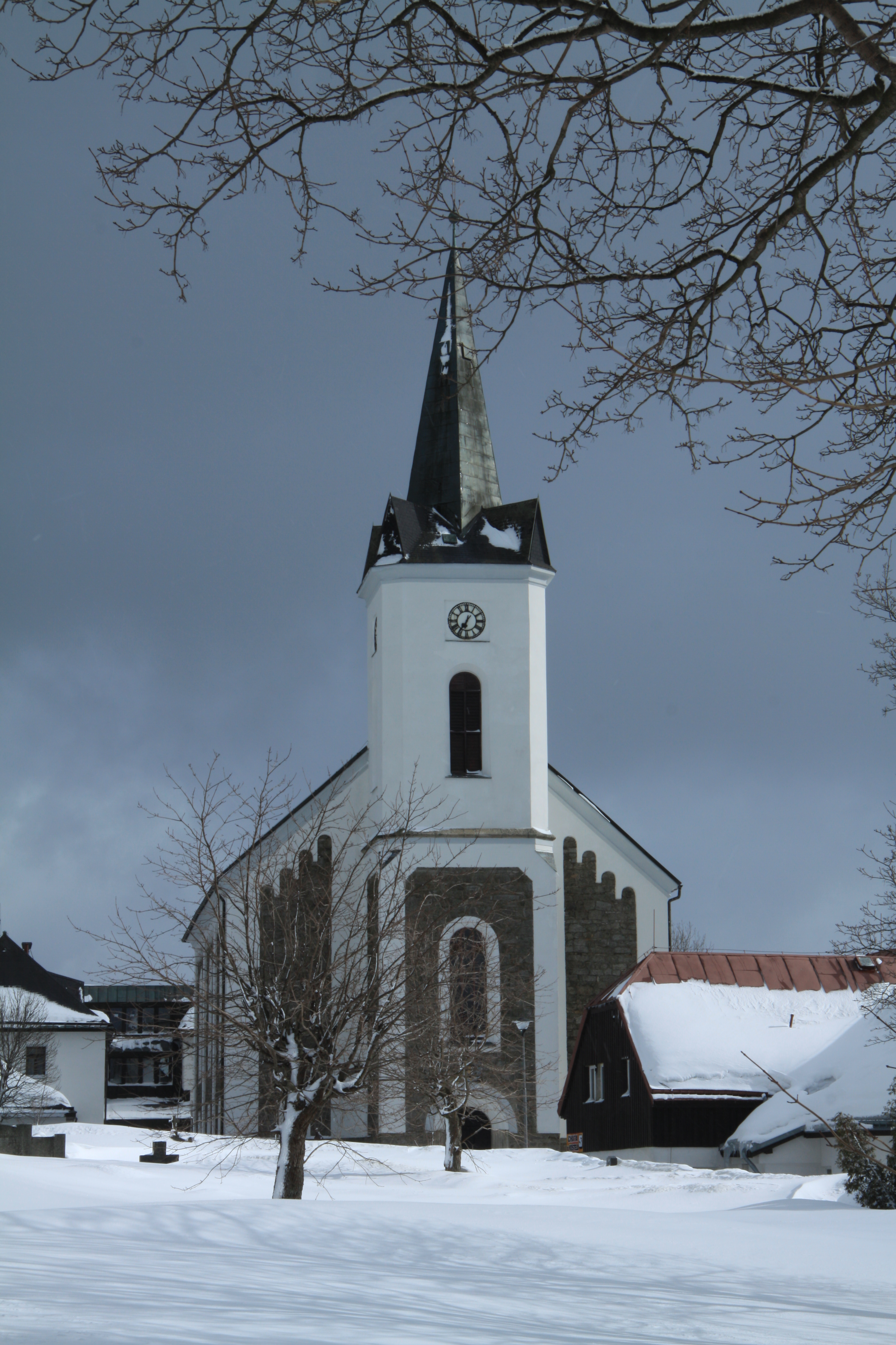 Kořenov-Příchovice, Jablonec nad Nisou District, Liberec Region, the Czech Republic. Church of Saint Vitus. - Google Maps - Google Earth